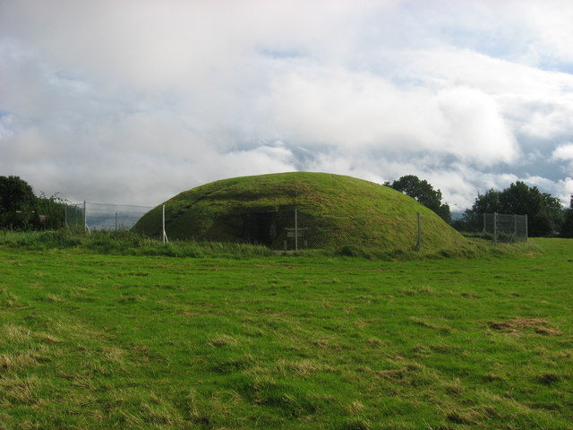 Passage tomb at Fourknocks, Co. Meath Excavated in 1950-52, this small mound contains a large cruciform tomb with three recesses opening off a central chamber. Many stones bear megalithic art. The roof, originally timber, was restored using a concrete dome. A new wire cage detracts from the setting.